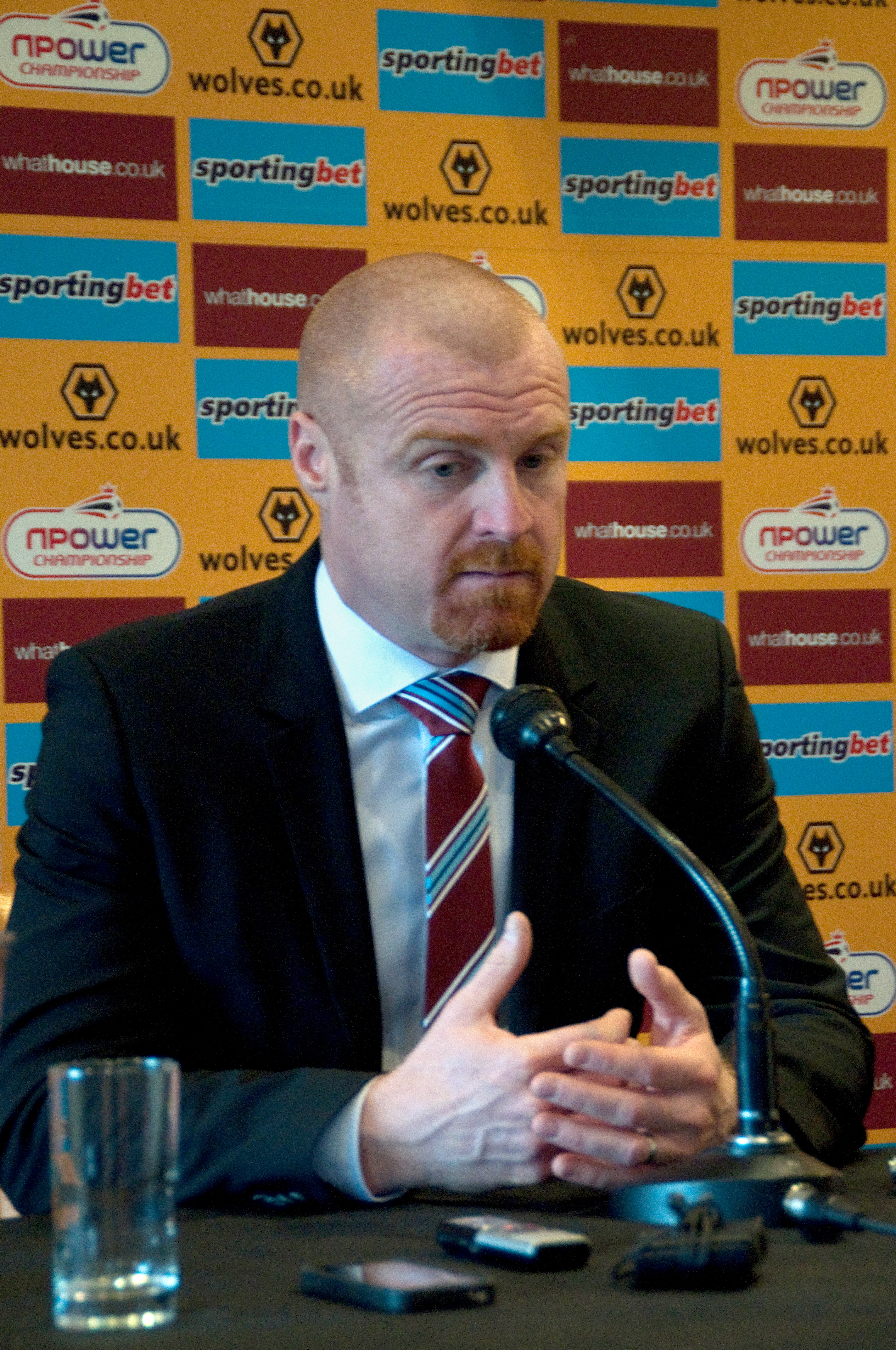 Sean Dyche during post-match press conference as manager of Burnley.